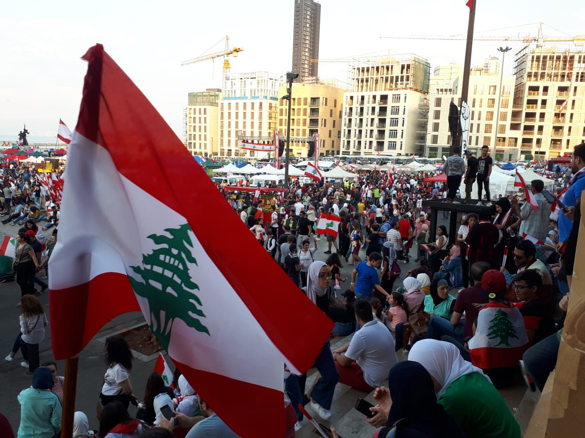 Protests in Beirut